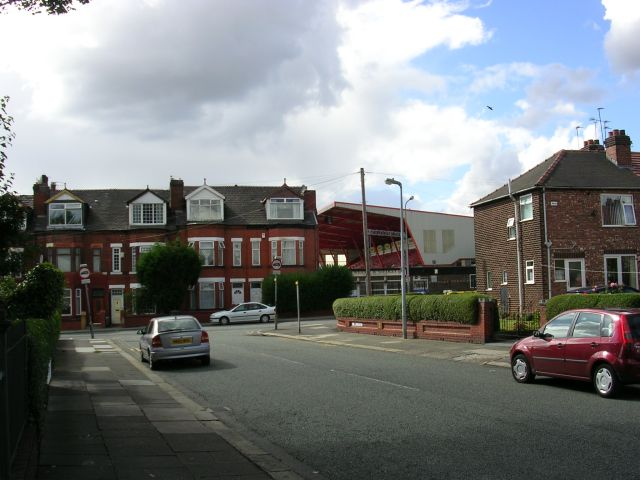 The Willows North Stand. Here, near the junction of Gore Ave and Weaste Lane, can be seen the North Stand of the Willows Stadium, the home of Salford City Reds Rugby League team.